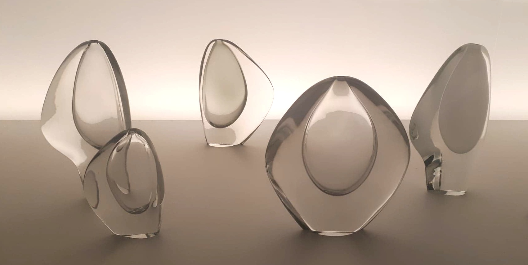 Lancets, Glass art by Timo Sarpaneva from 1952. The Lancets won the Grand Prix of the Milano triennale in 1954.